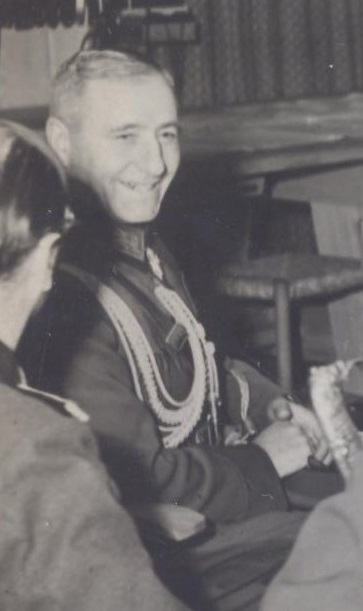 Bulgarian general Nikola Mikhov (1891-1945), 1943.